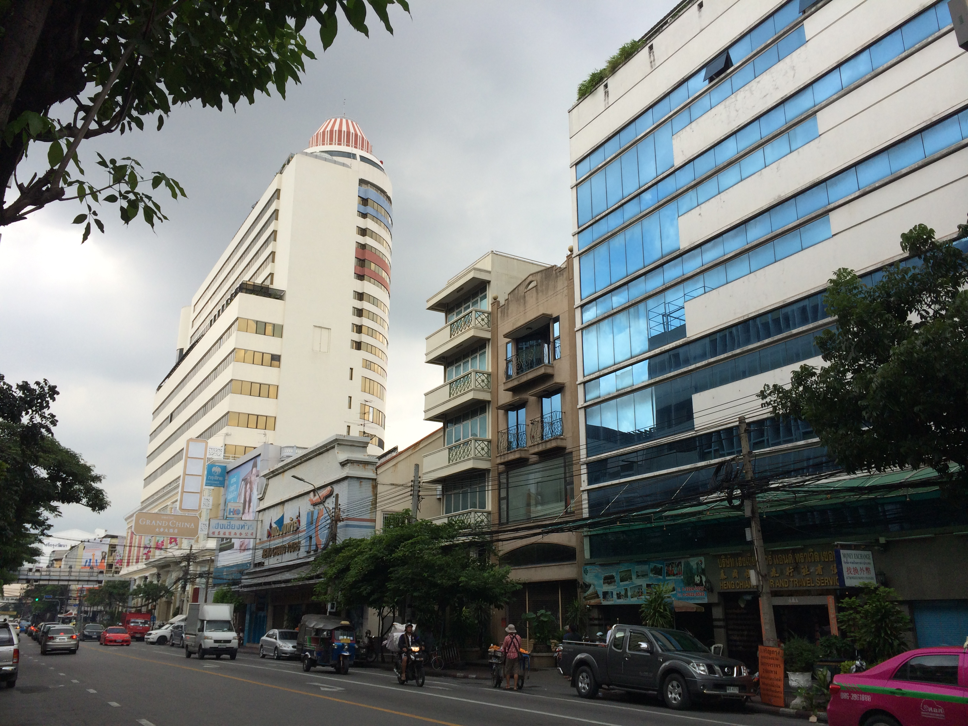 Ratchawong Road, near its intersection with Charoen Krung Road in Bangkok, Thailand.